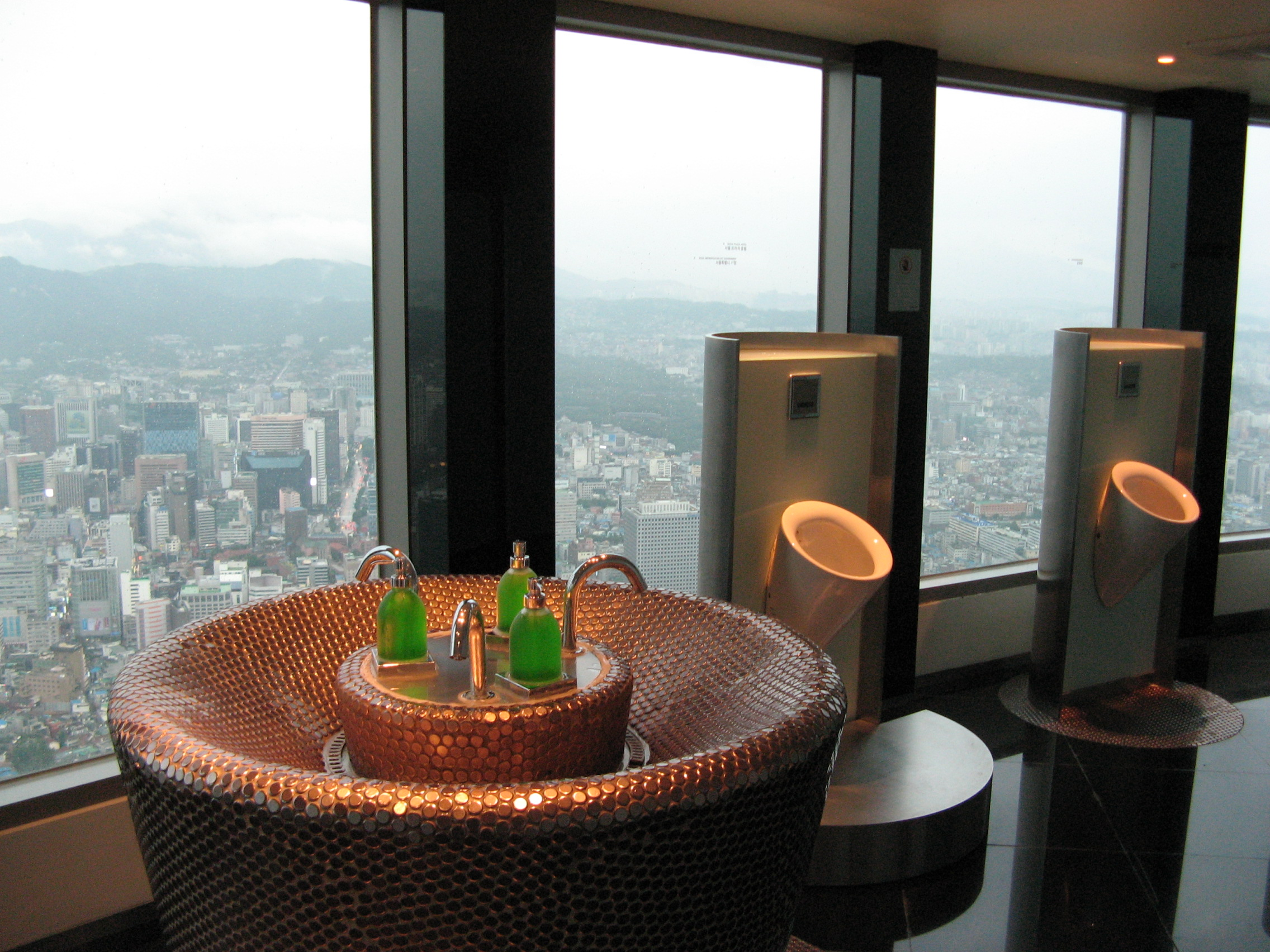 Washbasin & Urinal in mens toilette of television tower Seoul / South Korea